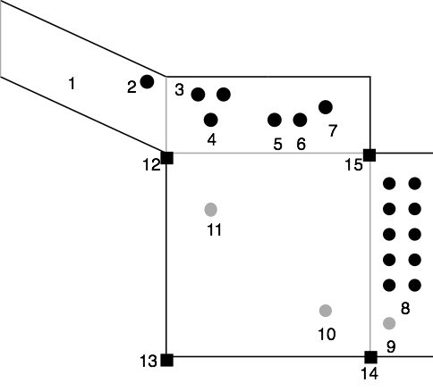 Noh stage diagram (1:hashigakari. 2:kyogen spot. 3:stage attendants. 4:shime-daiko. 5:ōtsuzumi. 6:kotsuzumi. 7:shinobue. 8:chorus. 9:waki seat. 10:waki spot. 11:shite spot. 12:shite-bashira. 13:metsuke-bashira. 14:waki-bashira. 15:fue-bashira)